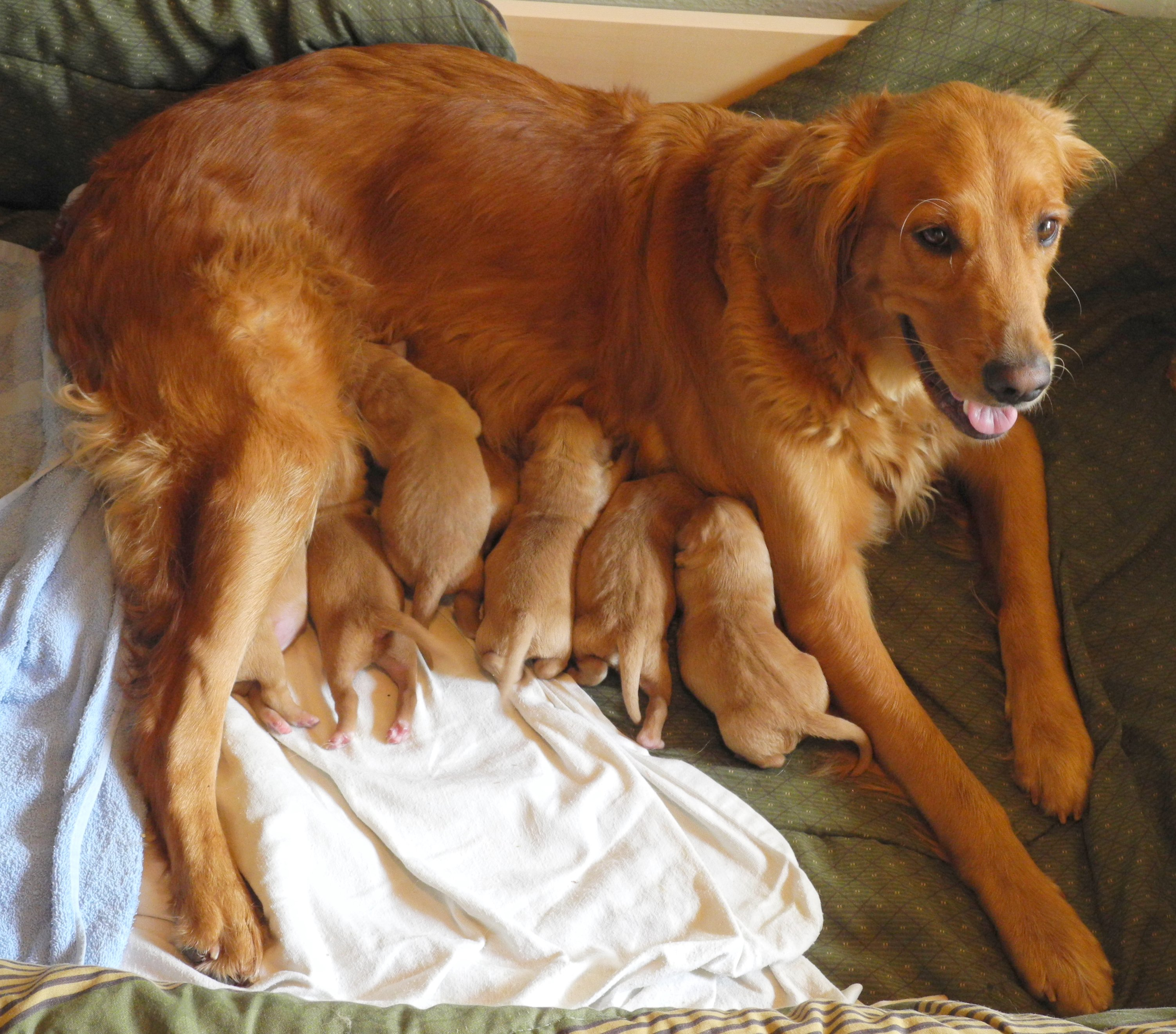 Gracie and her pups